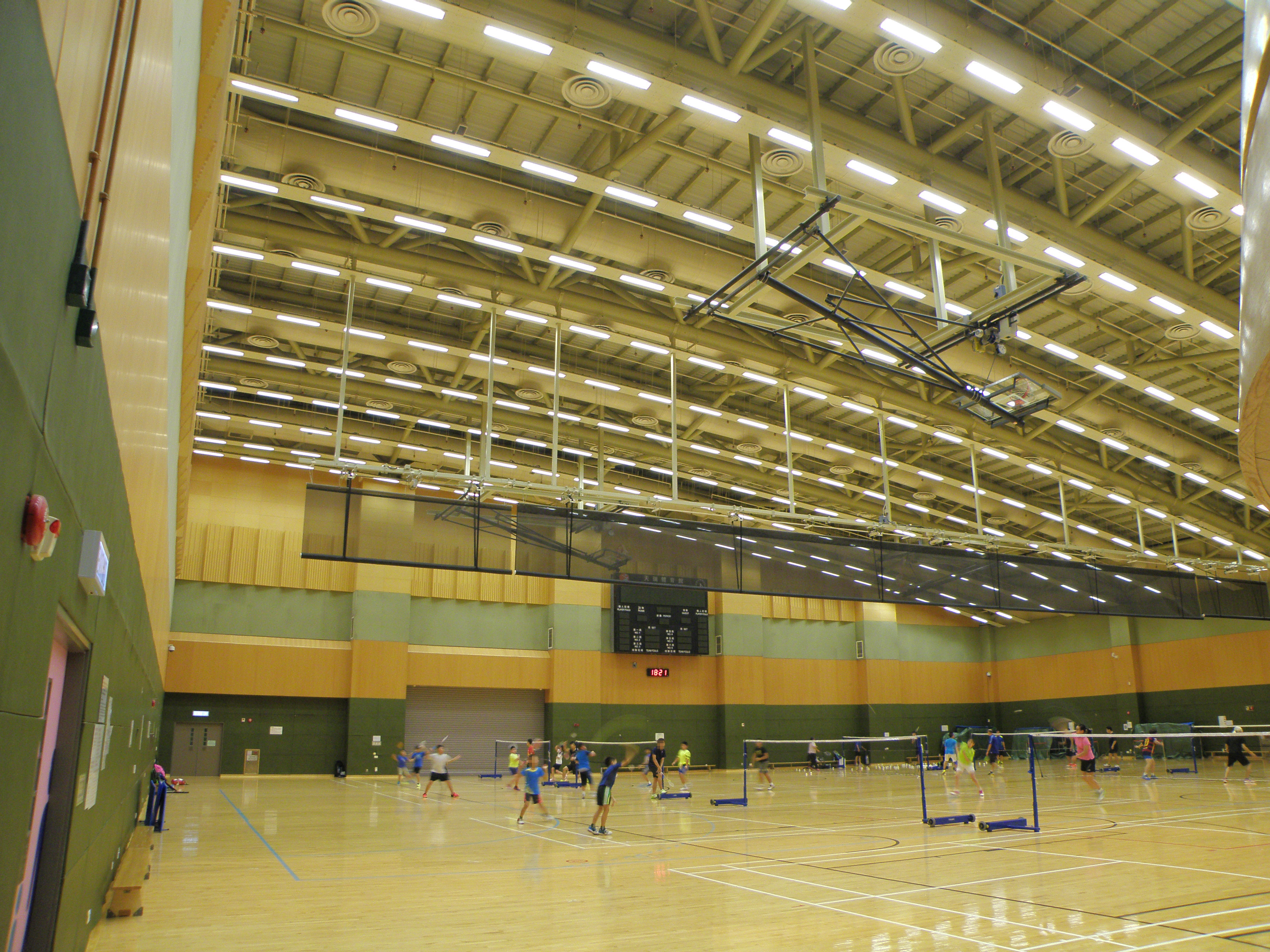 Tin Shui Sports Centre in Tin Shui Wai, Hong Kong.